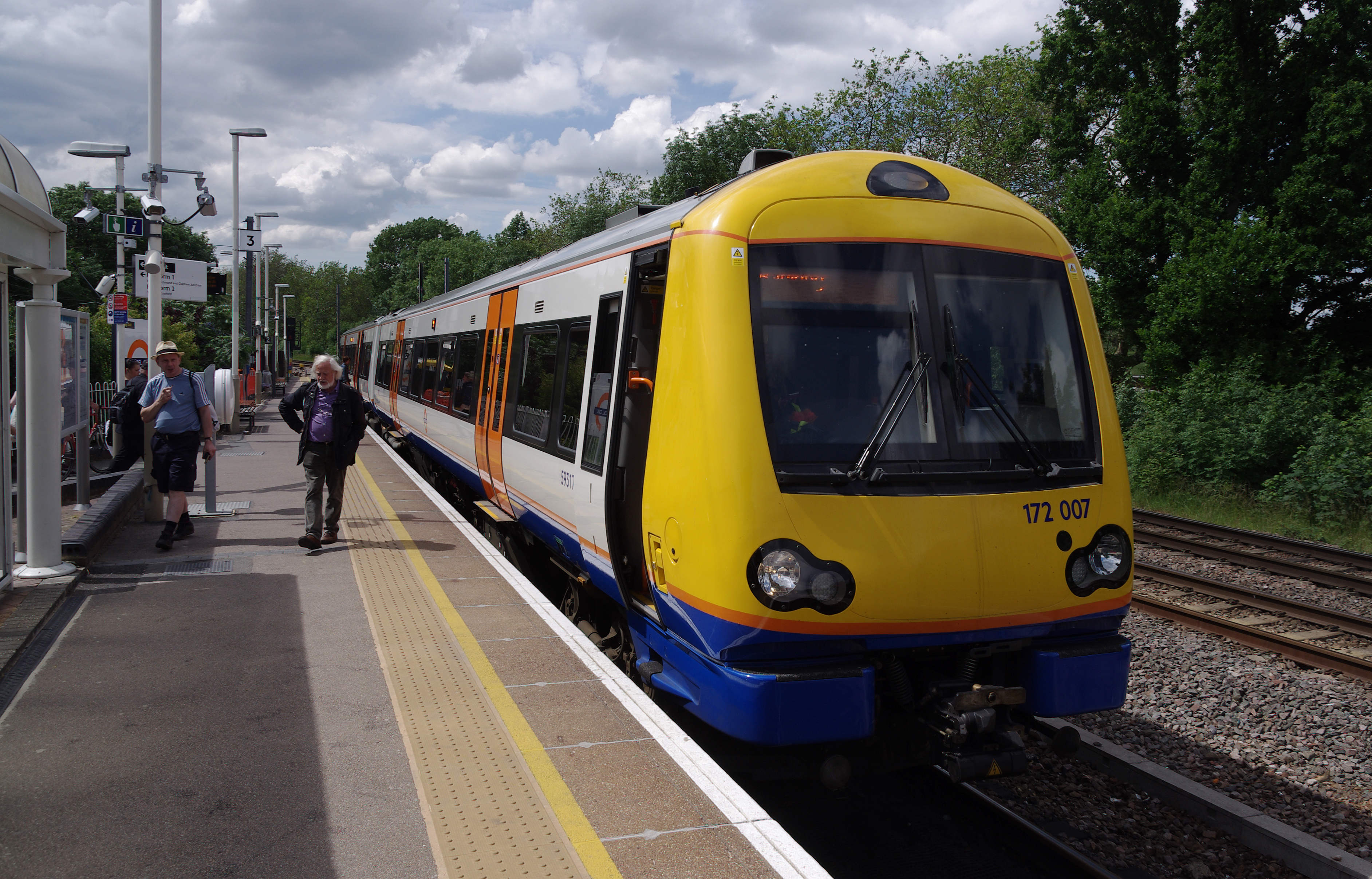 London Overground class 172 "Turbostar" DMU 172007 stands at Gospel Oak with a service to Barking.